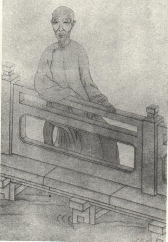 HUANG Yue, politician and scholar of the Qing Dynasty.